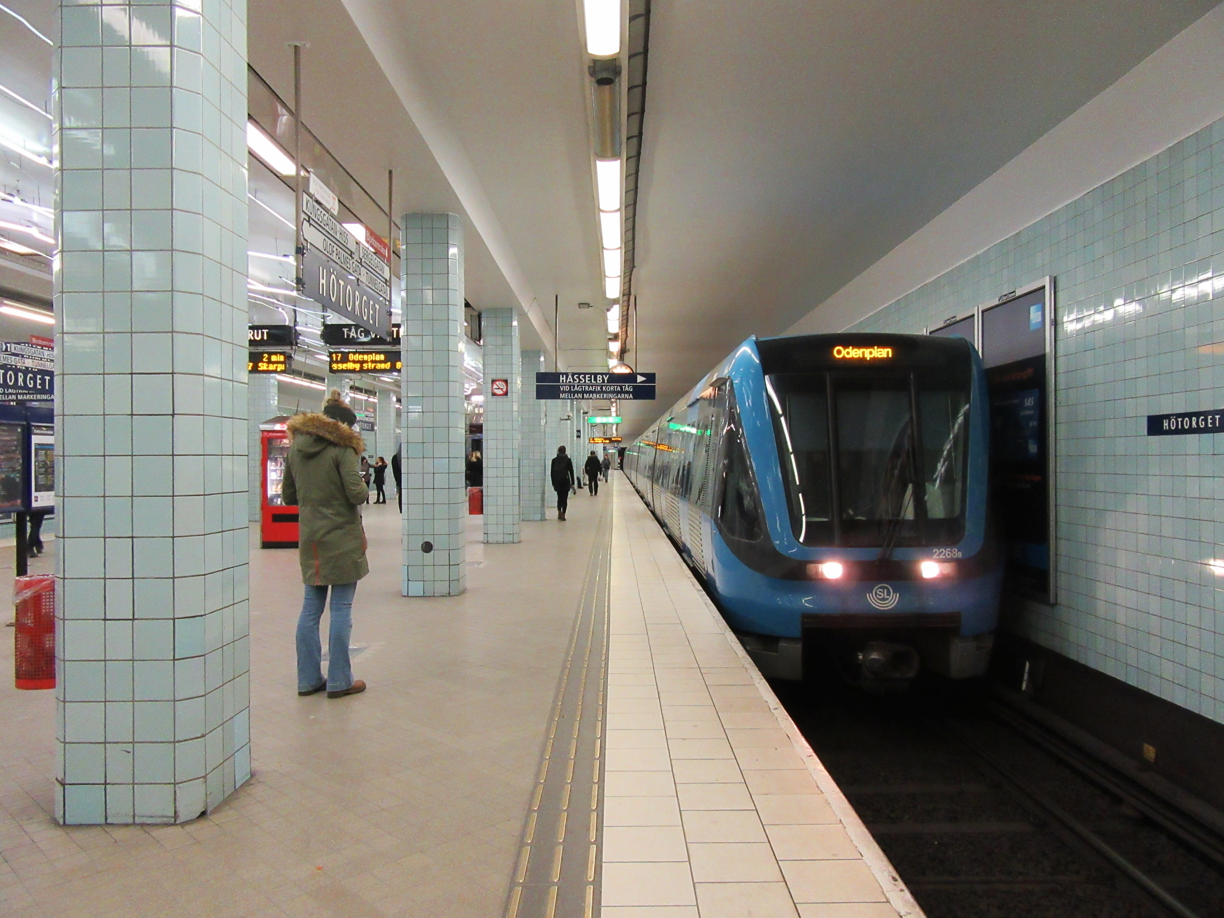 Metro car class C20 at Hötorget metro station in Stockholm.